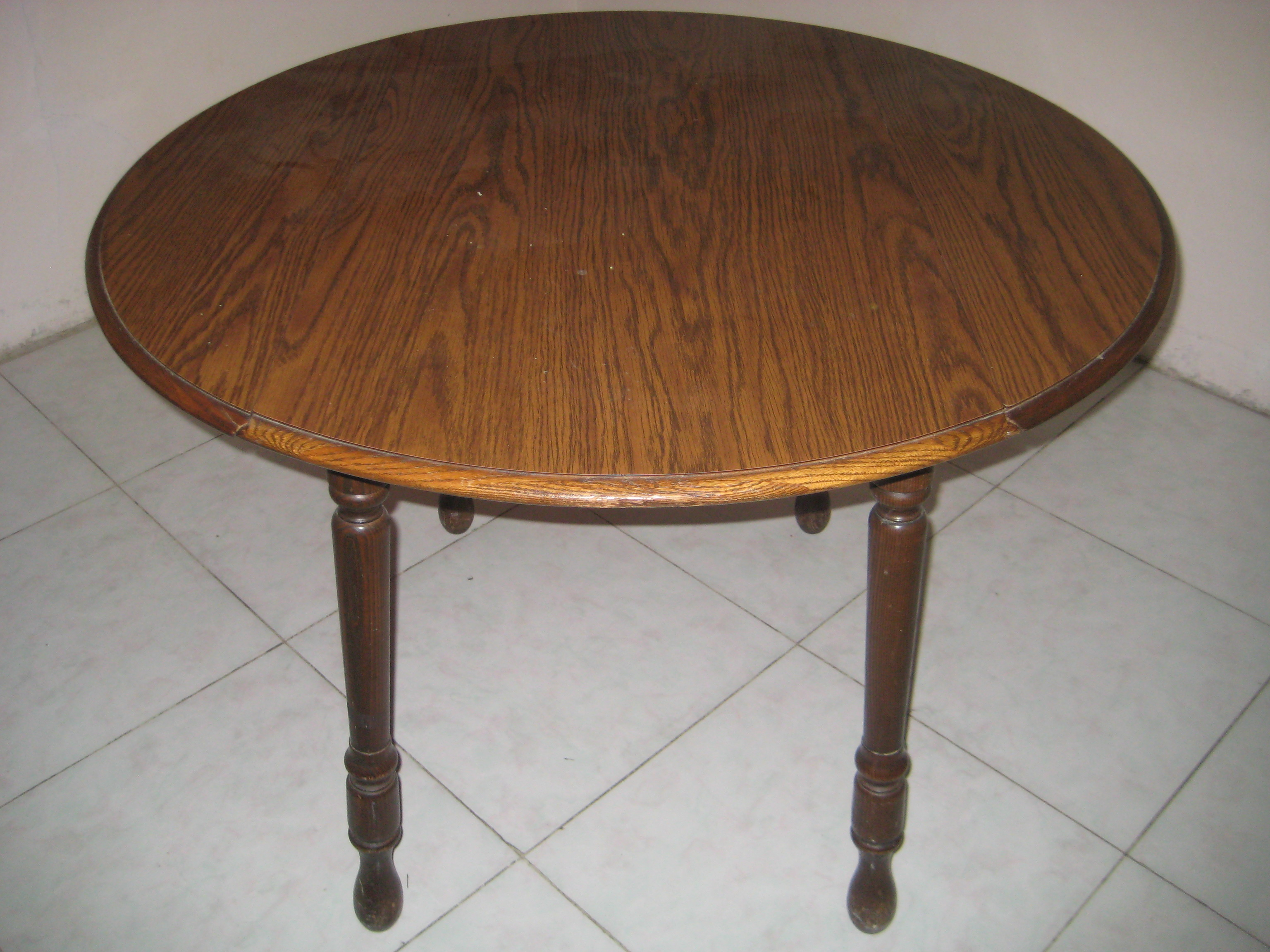 Table, Round Table